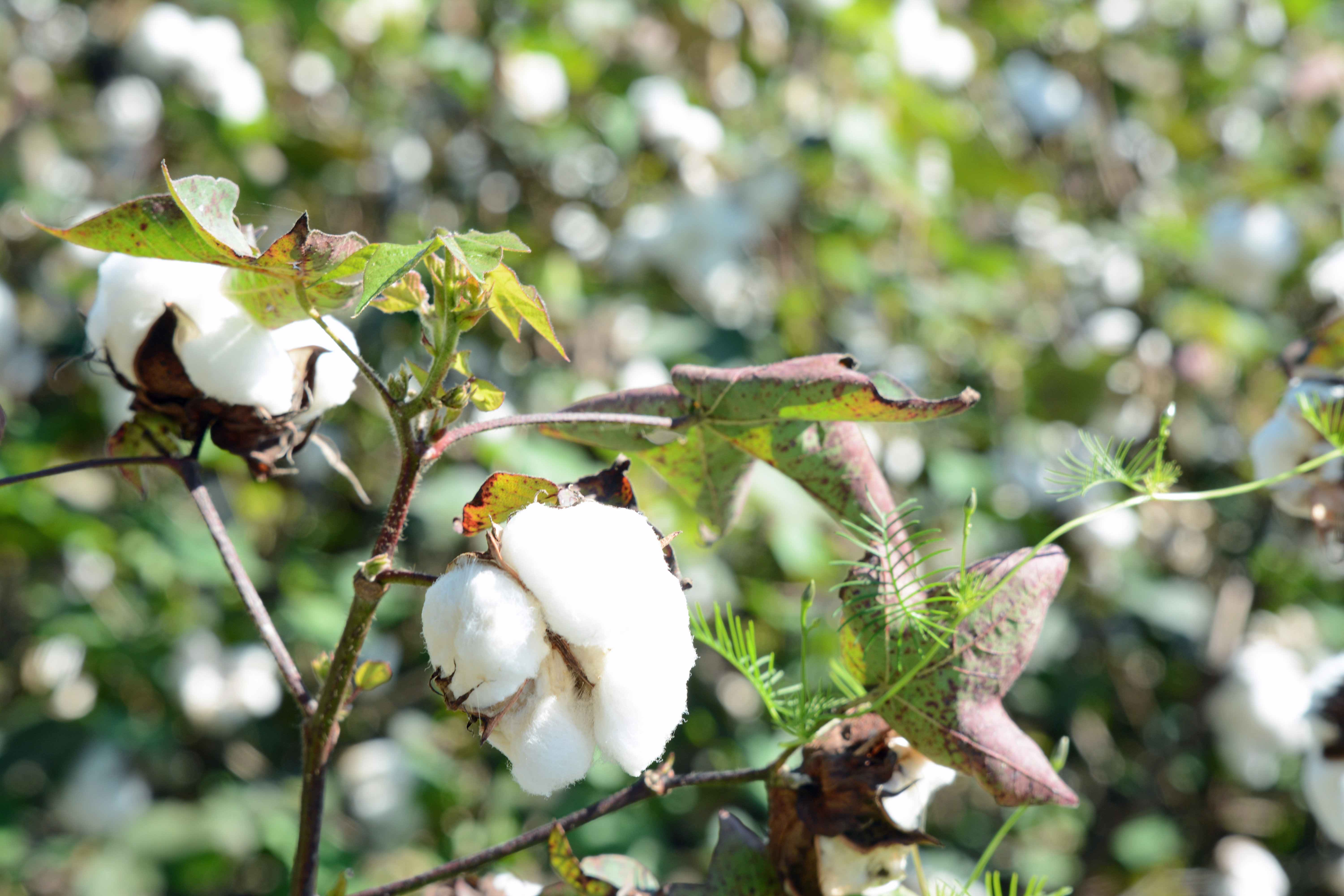 Cotton plant, Ware County, Georgia, US